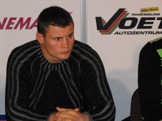 Robert Stieglitz, WBO supermiddleweight champion from Germany